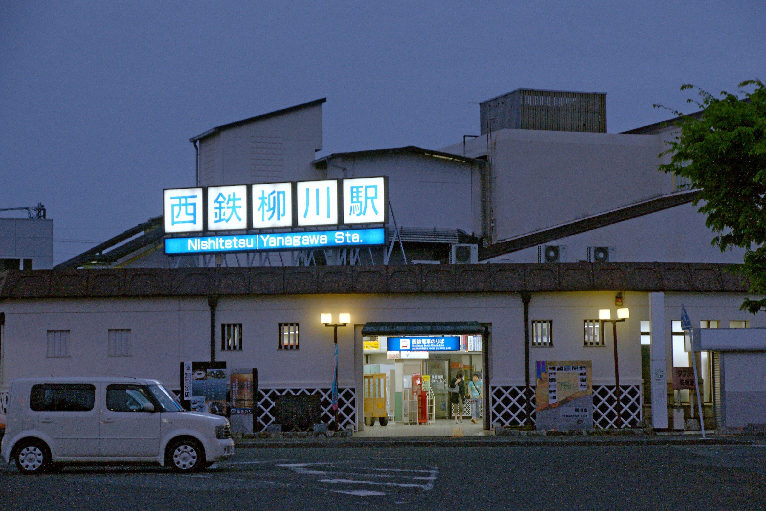 Nishitetsu-Yanagawa Station, Yanagawa, Fukuoka prefecture, Japan